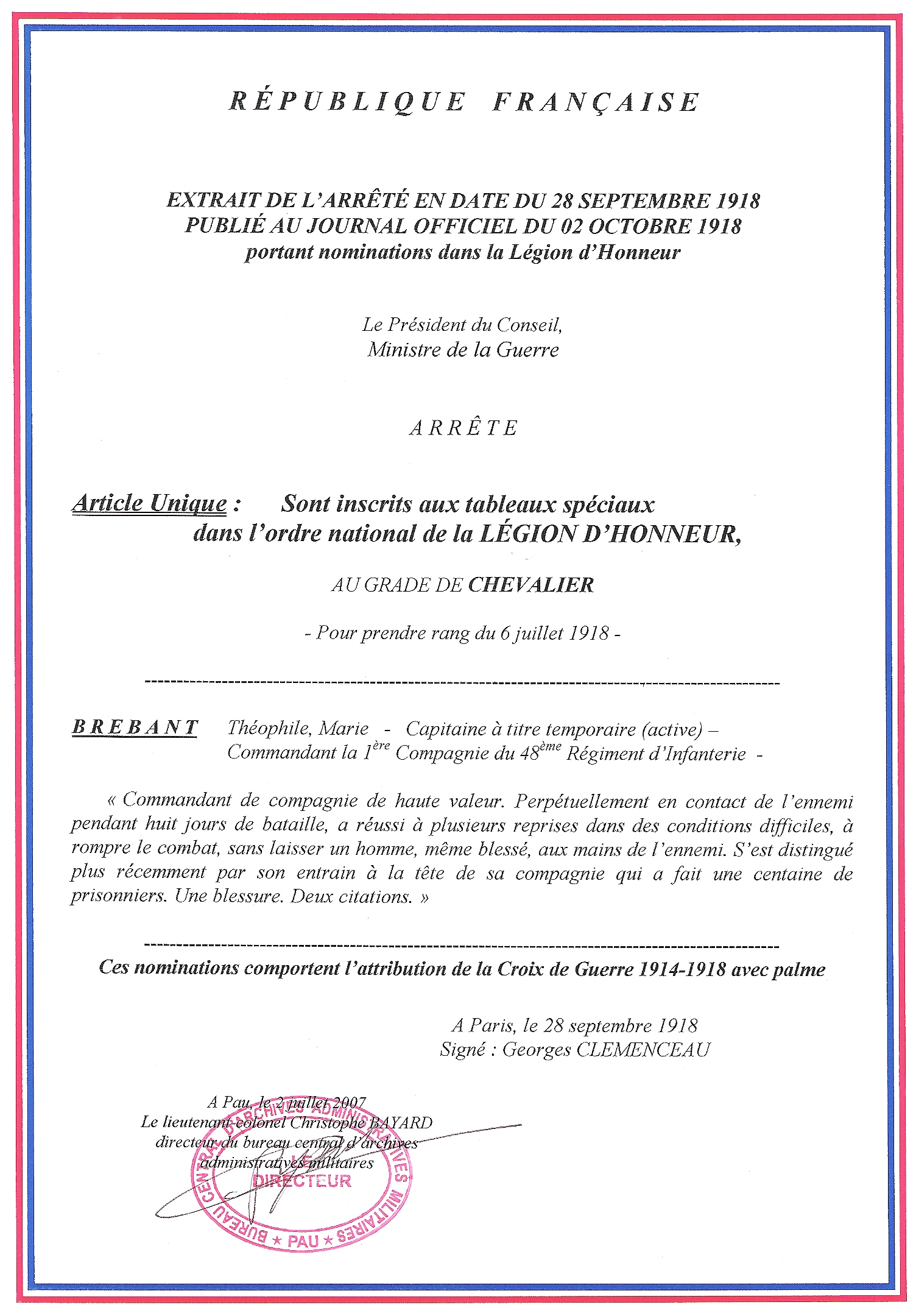 Concession of the quotation on appointments to the Legion of Honor of Captain Brebant. This image has a document issued by the French government: the copyright or copyright does not apply to both original and copy.